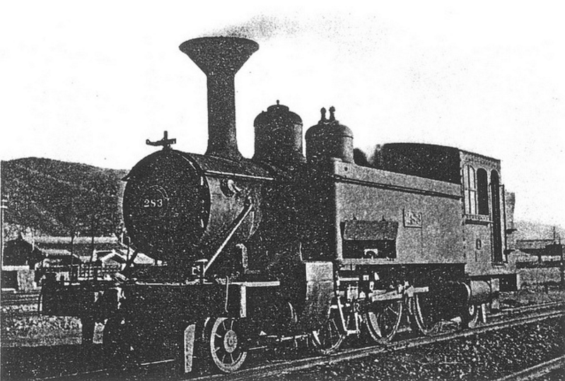 The Purisa class was a group of 14 locomotives built in 1912 by the Borsig works of Germany. They were larger than the two preceding classes, with greater coal and water capacity, and were the first locomotives in Korea with Walschaerts valve gear. Like the previous types, they were delivered in knockdown form, and assembled at Sentetsu's shops in Busan.